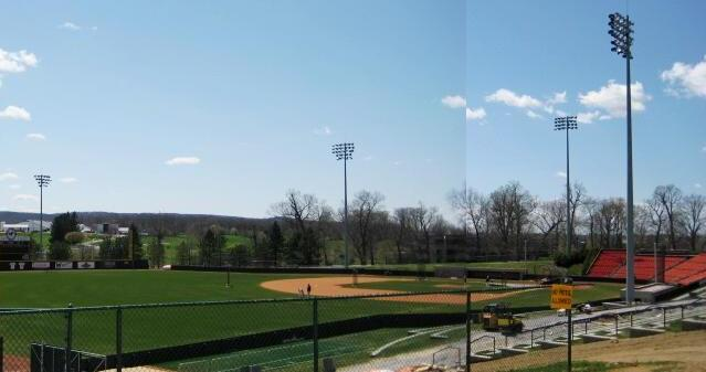 English Field, the baseball field for the Virginia Tech Hokies. Picture was made by putting two of my pictures together.